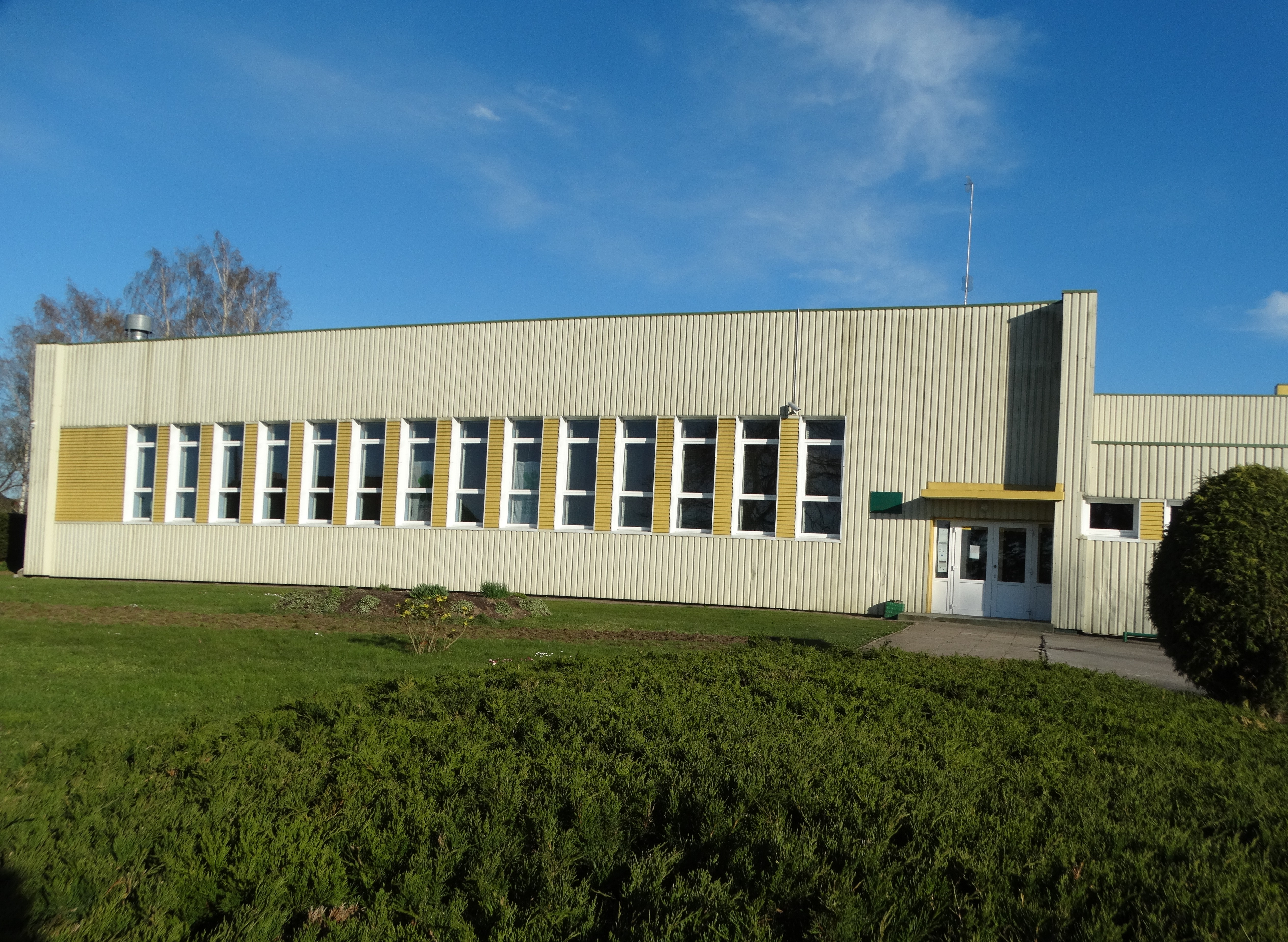 Lauksargiai, basic school, Tauragė district, Lithuania